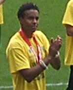 Oli Johnson with 2010–11 Football League Championship runners-up medal, taken at Norwich City's home match against Coventry City on 7 May 2011.